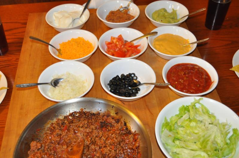 Taco fixin's